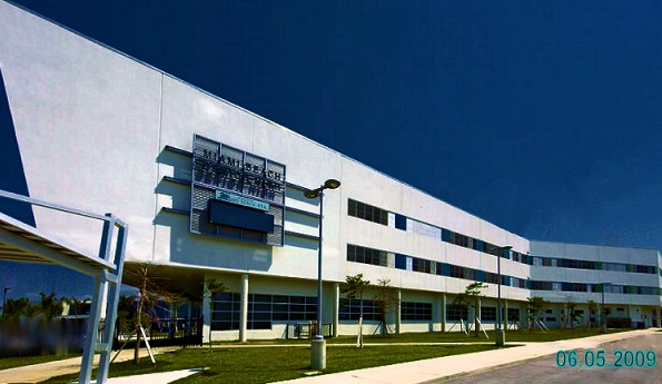 Miami Beach Senior High school in Miami Beach, Florida as seen from the bus lanes 6/5/2009.